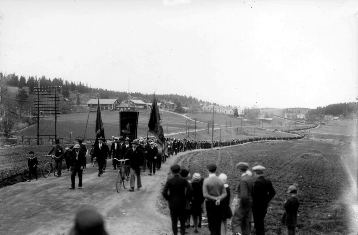 Sweden, May 14, 1931. The photo of the march was taken a few minutes to 3pm May 14 1931 before it reached the ferry jetty at Lunde. A few minutes later five were dead and five more wounded.